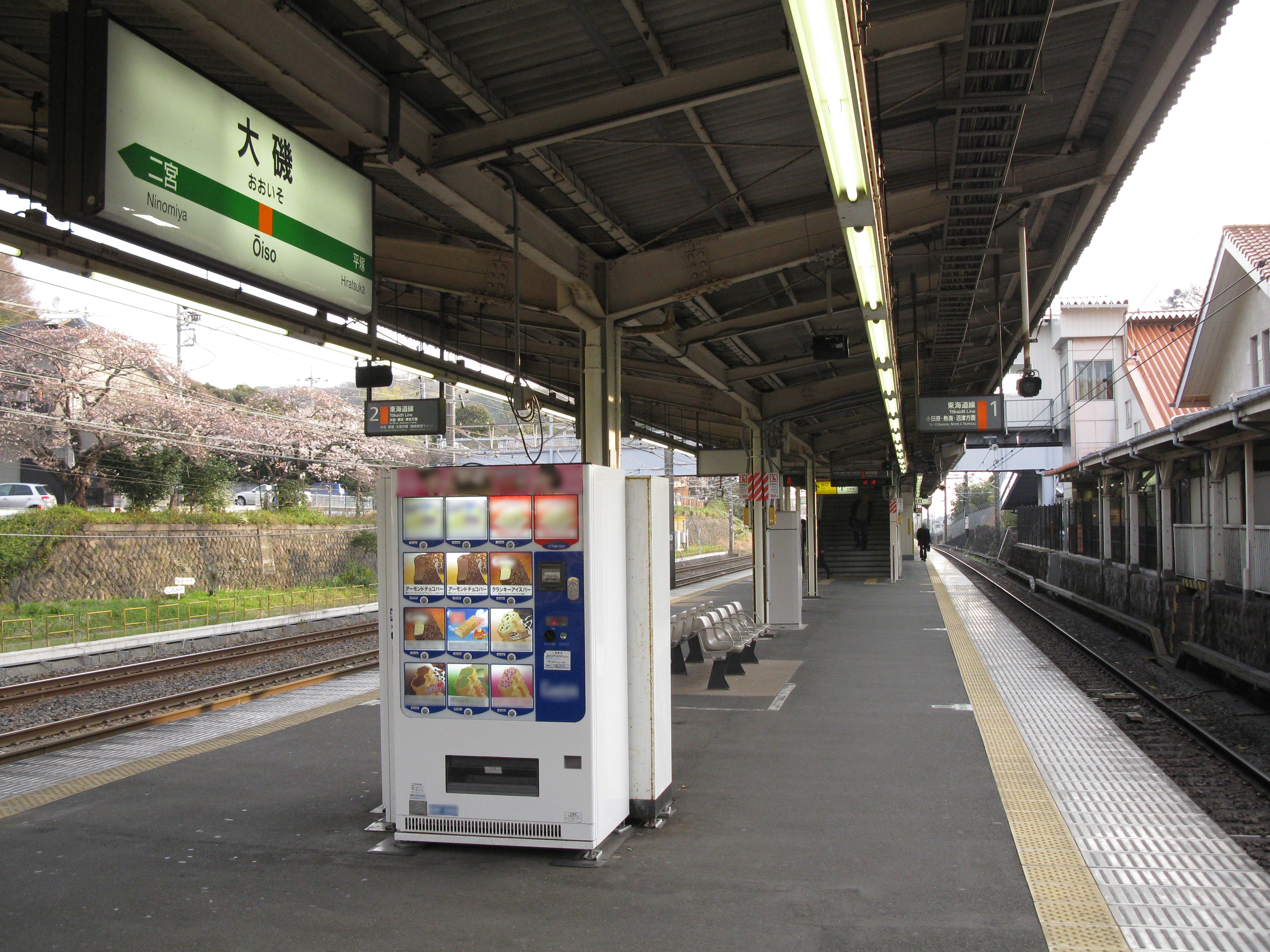 Ōiso Station platform (East Japan Railway(JR East) Tōkaidō Main Line)